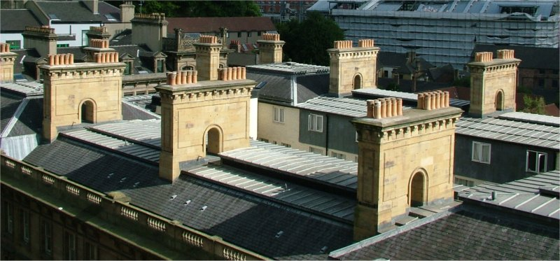 Chimney stacks, Newcastle-Upon-Tyne, England